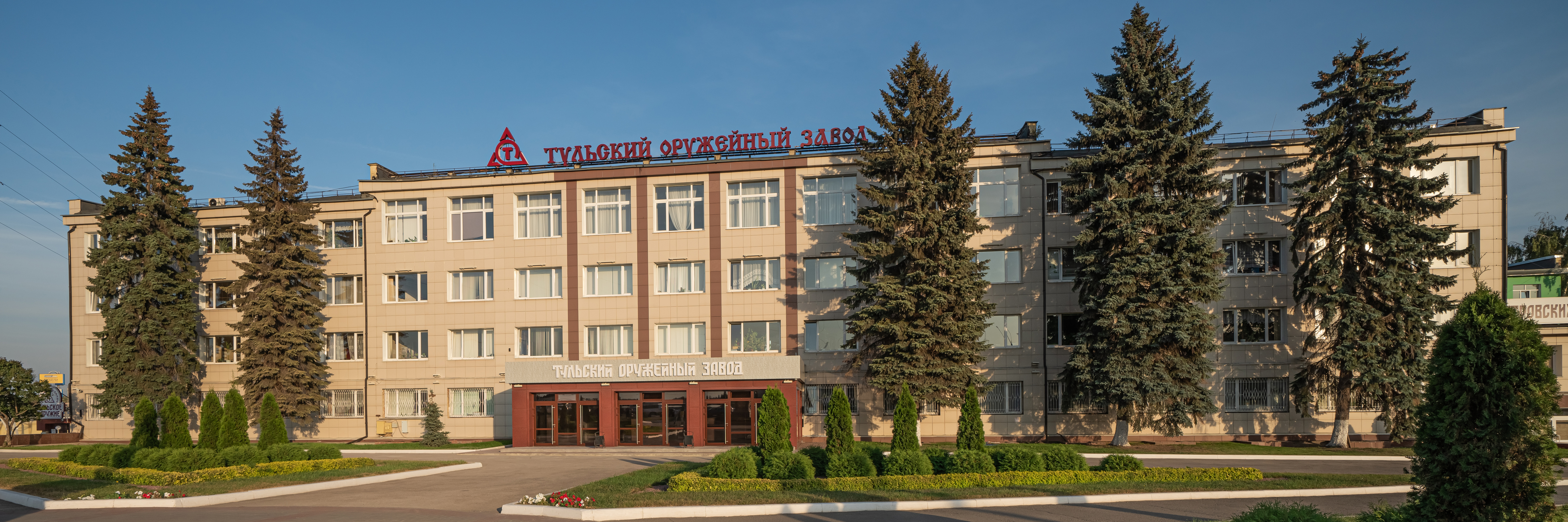 Entrance building of the Arms Plant (TOZ) in Tula, Russia